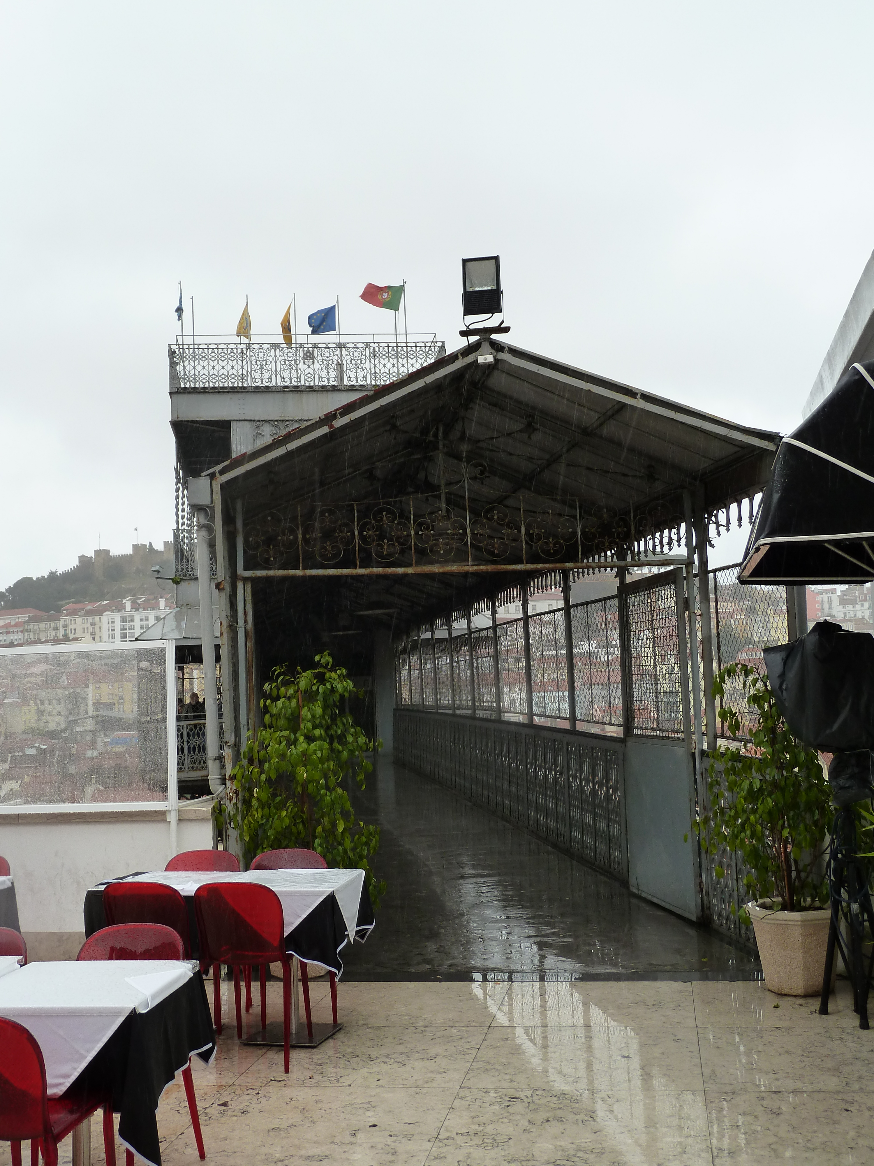 Elevador de Santa Justa, Lisbon